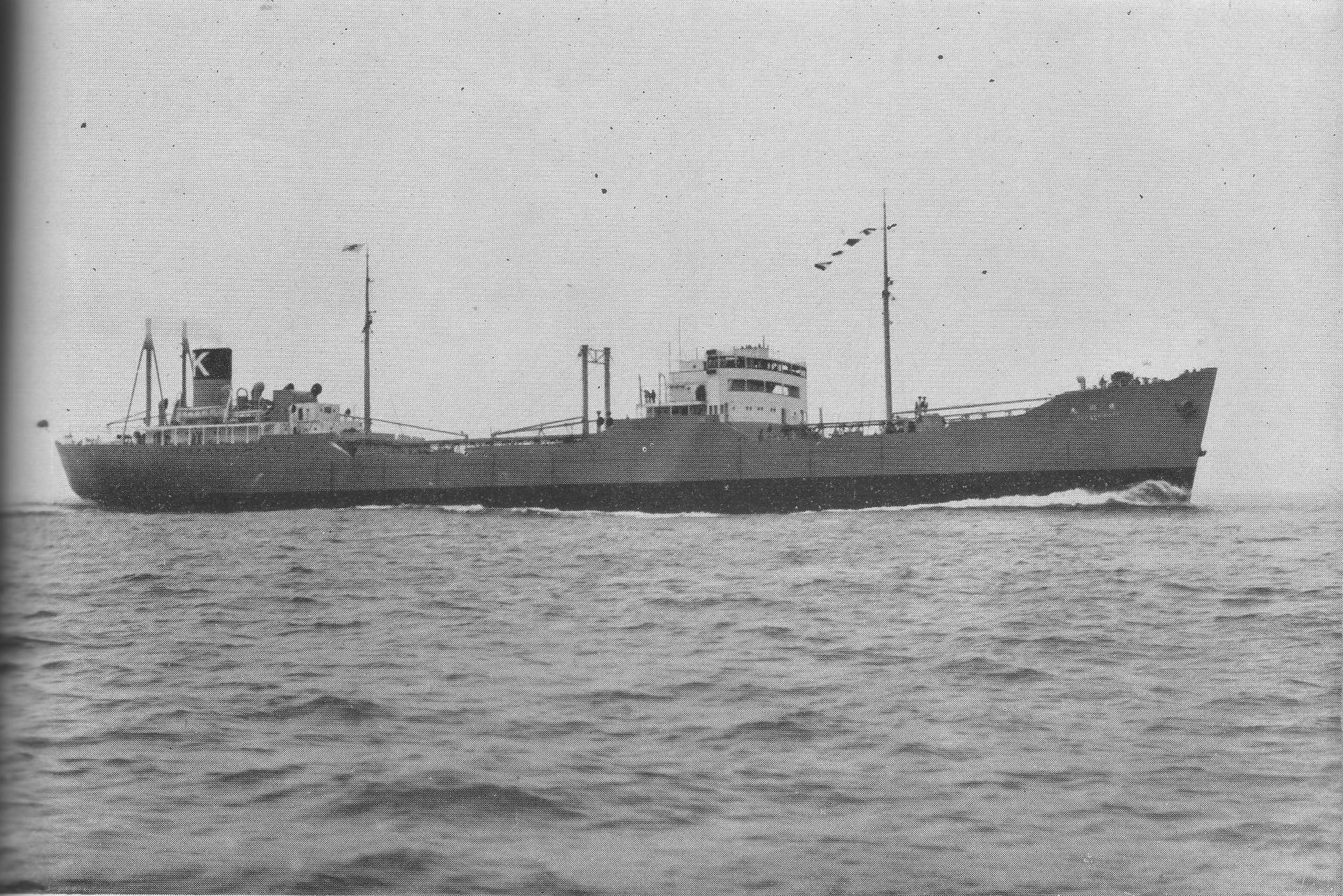 K Line Oiler "Takekawa Maru" (1935)